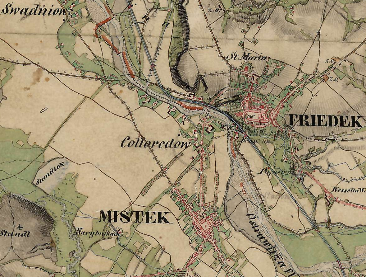 Friedek and Mistek on an austrian map from around 1840